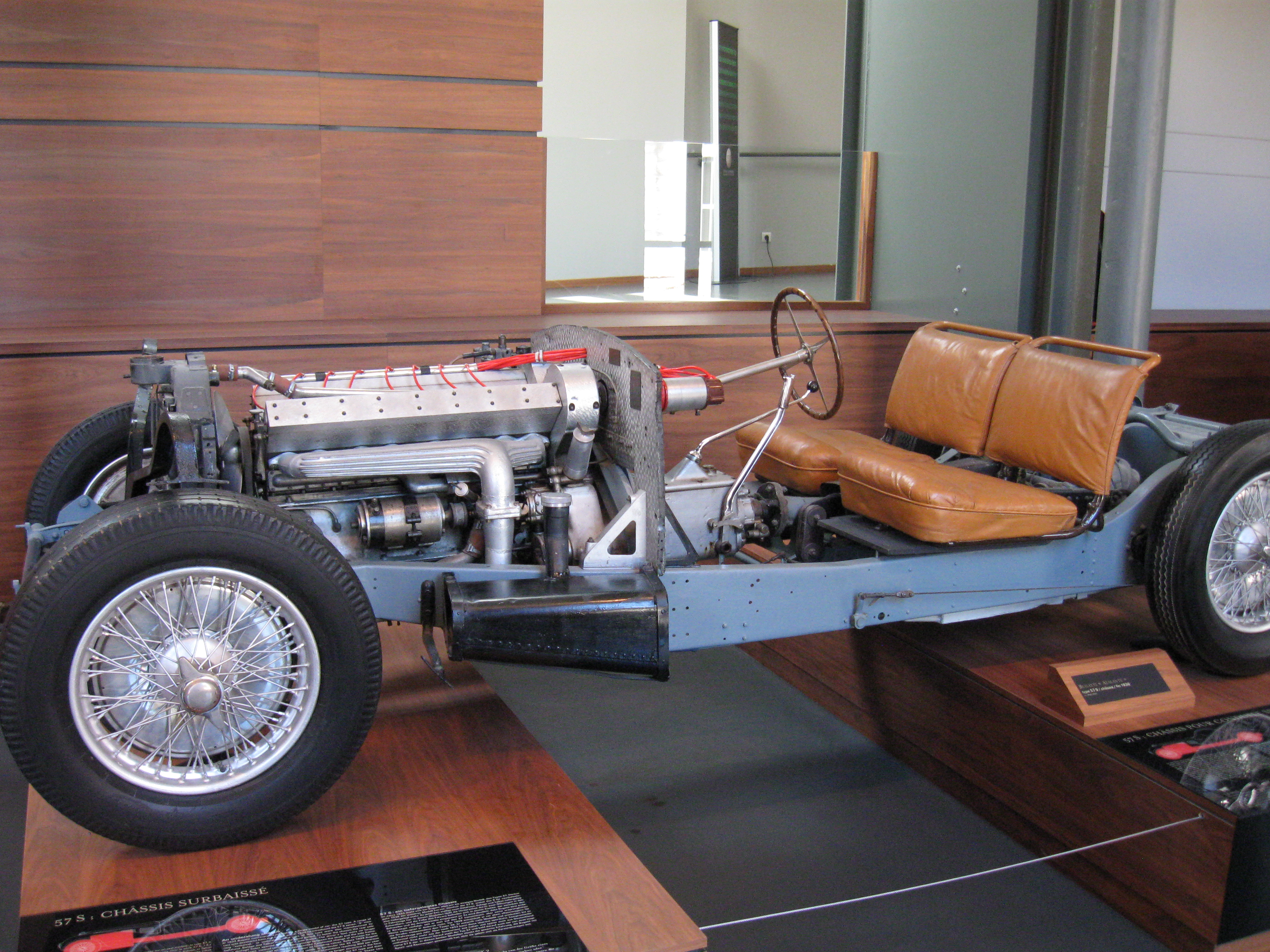 A chassis, engine and running gear for a Bugatti Type 57S Atalante, displayed at the French national auto museum in Mulhouse, France ("Schlumpf collection")